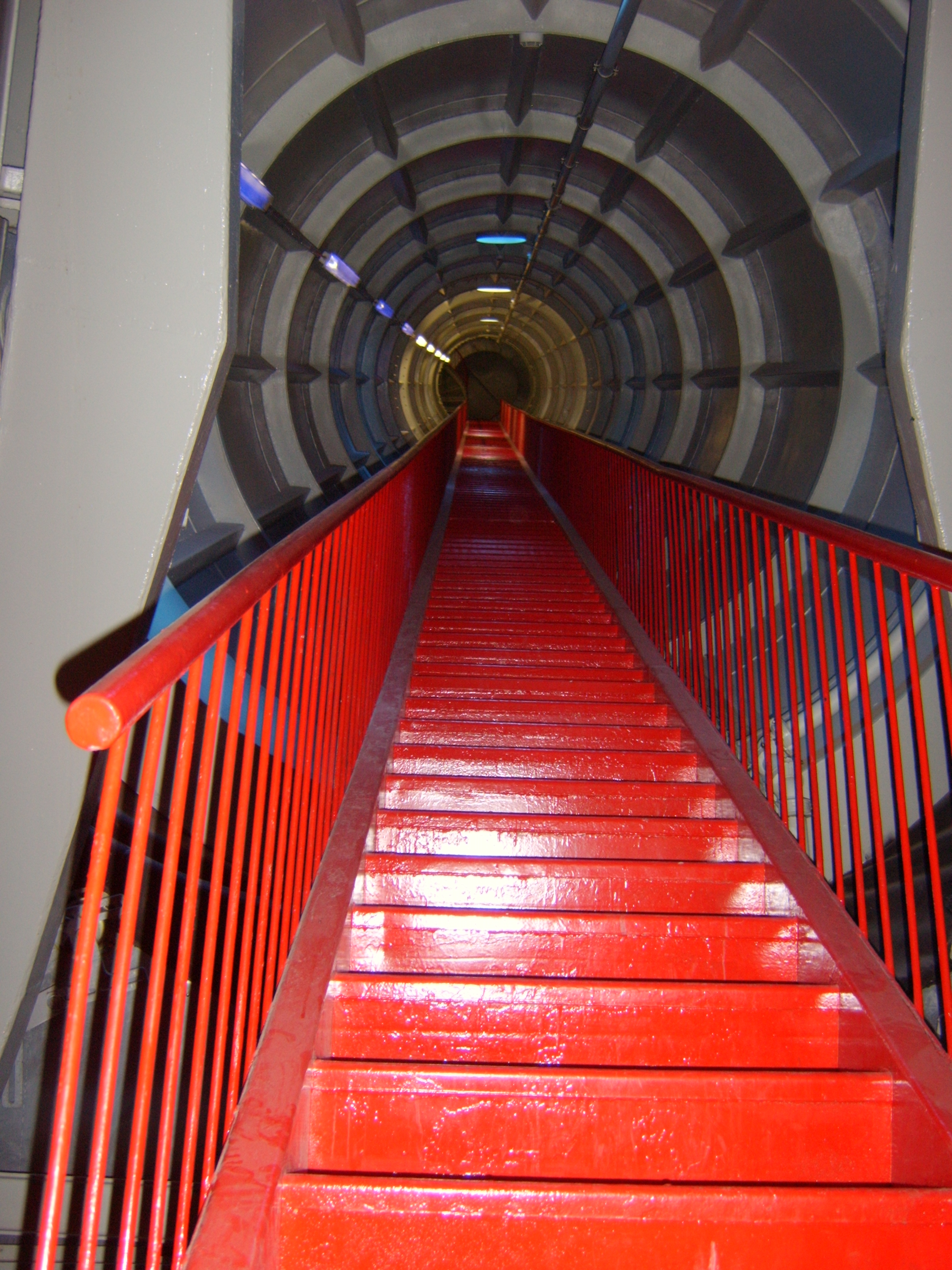 Inside Atomium (Brussels) - Stairway